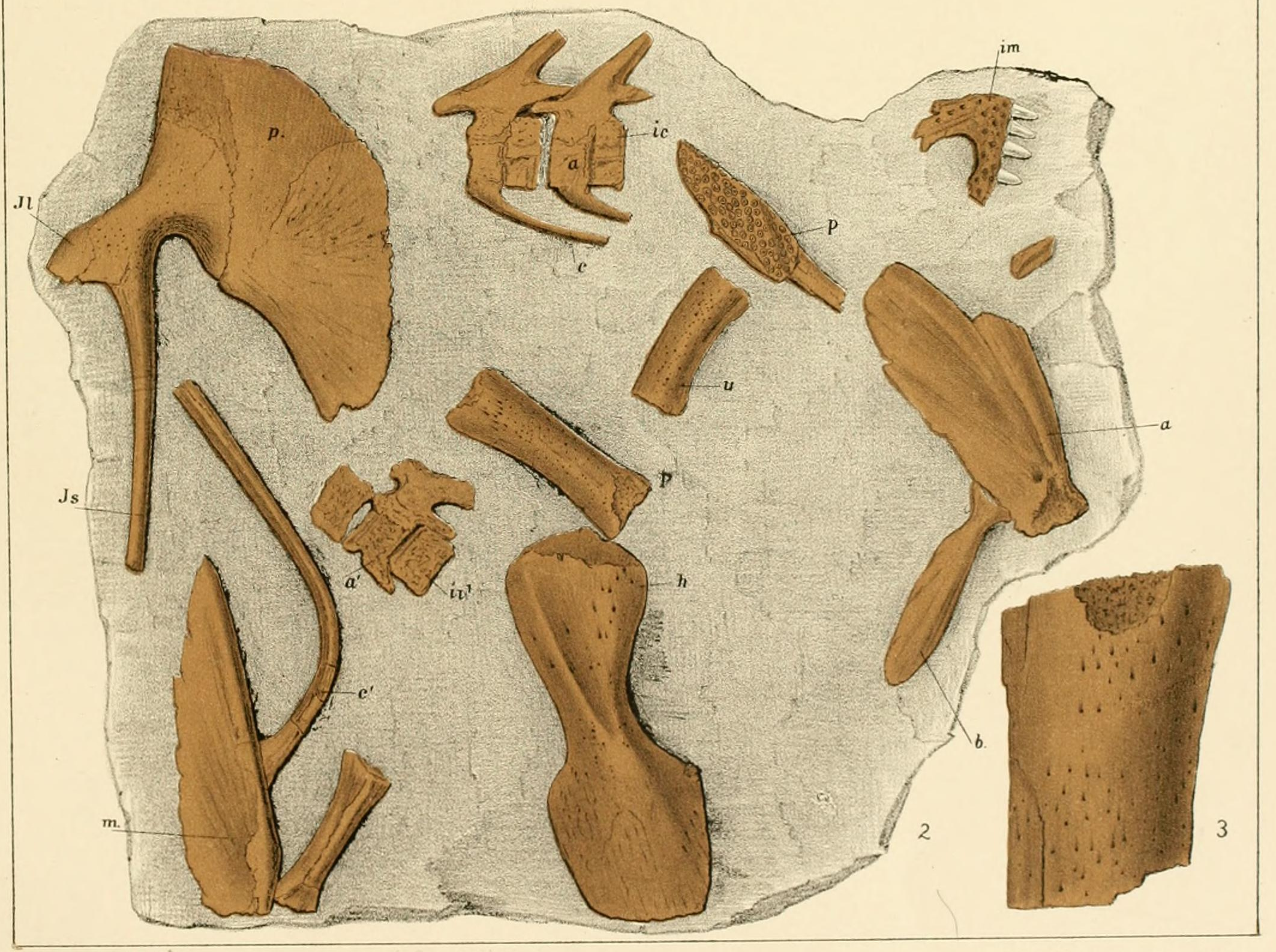 An illustration of Fr. Orig. 96, the smaller slab of fossil material referable to Diplovertebron punctatum. From Plate 52 of Volume 2 of the source. Original text (translated): " Diplovertebron punctatum, Frič. (Text page 11.) (Compare Plate 50, Figures 5-14; Plate 53.) From the bituminous coal of Nýřan. Fig. 2. Scattered skeletal remains picked out from a dense assortment of bones. im. Premaxilla. r. Radius. p. Fragment of a palatine bone. u. Ulna. a. b. m. Skull bones. Il. Illium. a. ic. Caudal vertebrae, explained in more detail on Plate 50. Is. Ischium. c. Rib. p. Pubis. h. Humerus. (Magnified 2 times, Number D. Orig. 96.)"